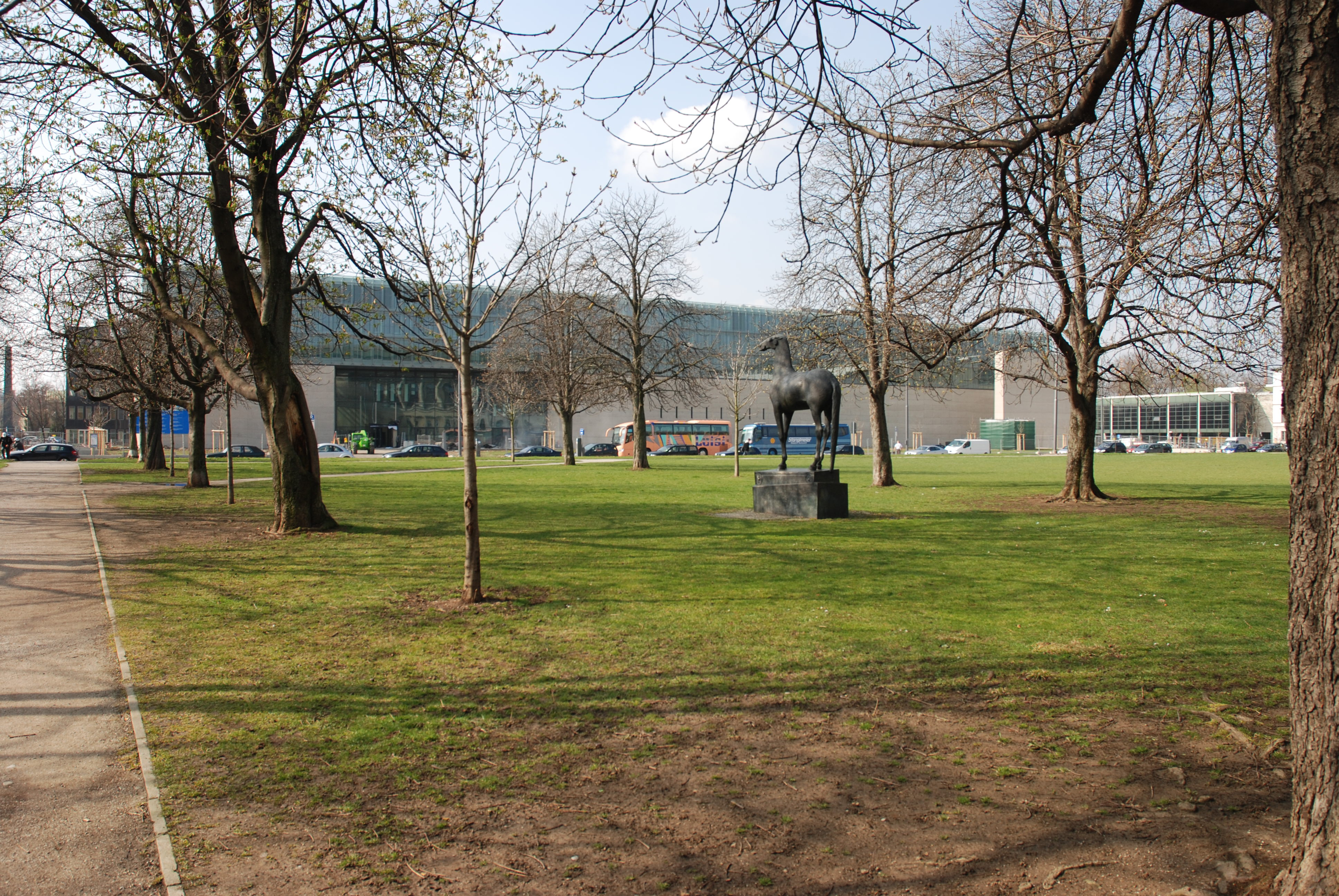 Staatlisches Museum Ägyptischer Kunst with Hans Wimmer´s Trojanisches Pferd in the foreground